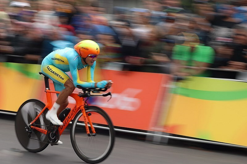 Cycling at the 2016 Summer Olympics – Men's road time trial